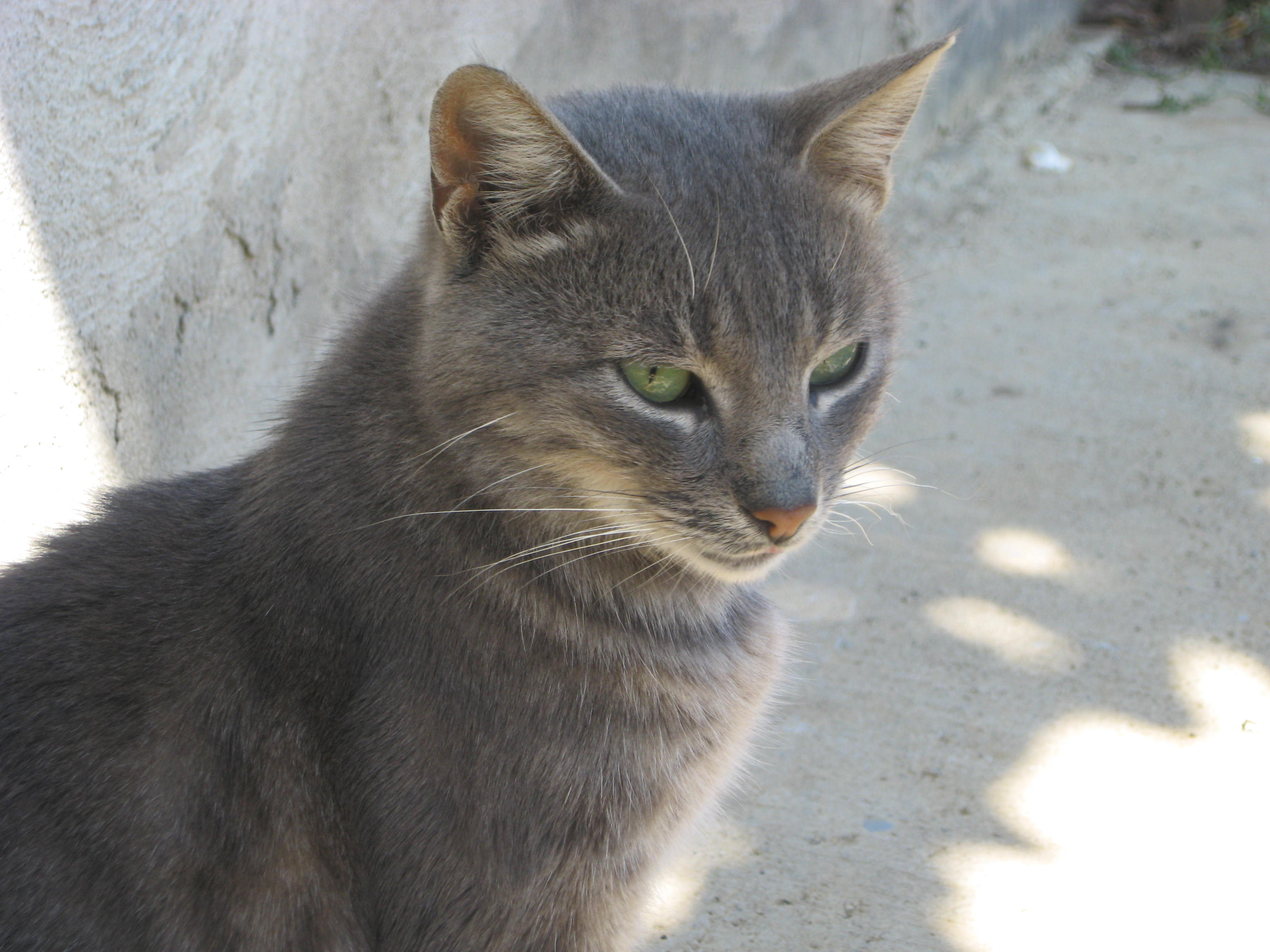 Cat in Zupče village